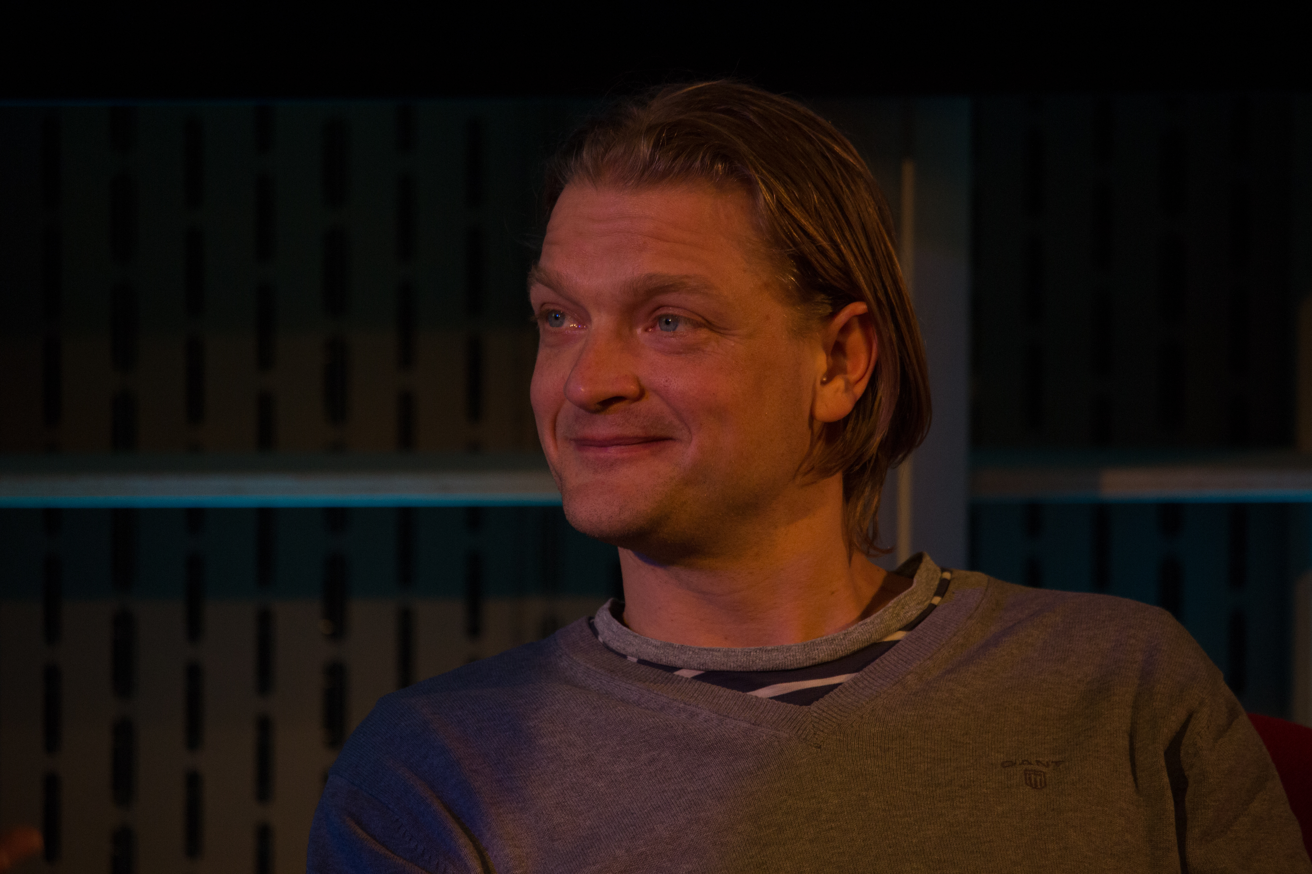 Sander Burger talking about his documentary Alice Cares at the IFFR 2015